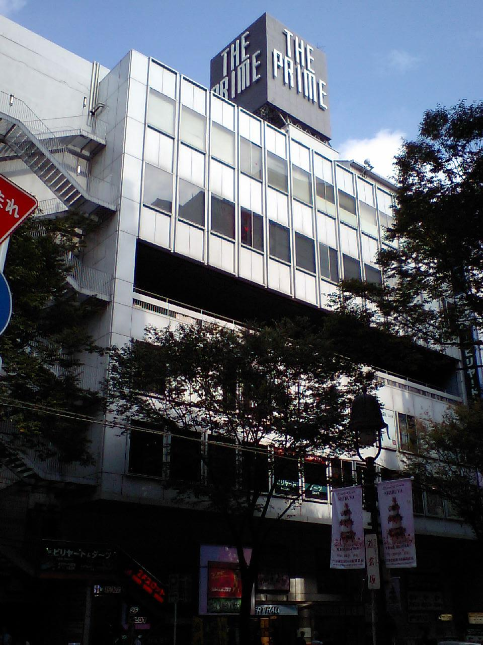 shibuya_the-prime